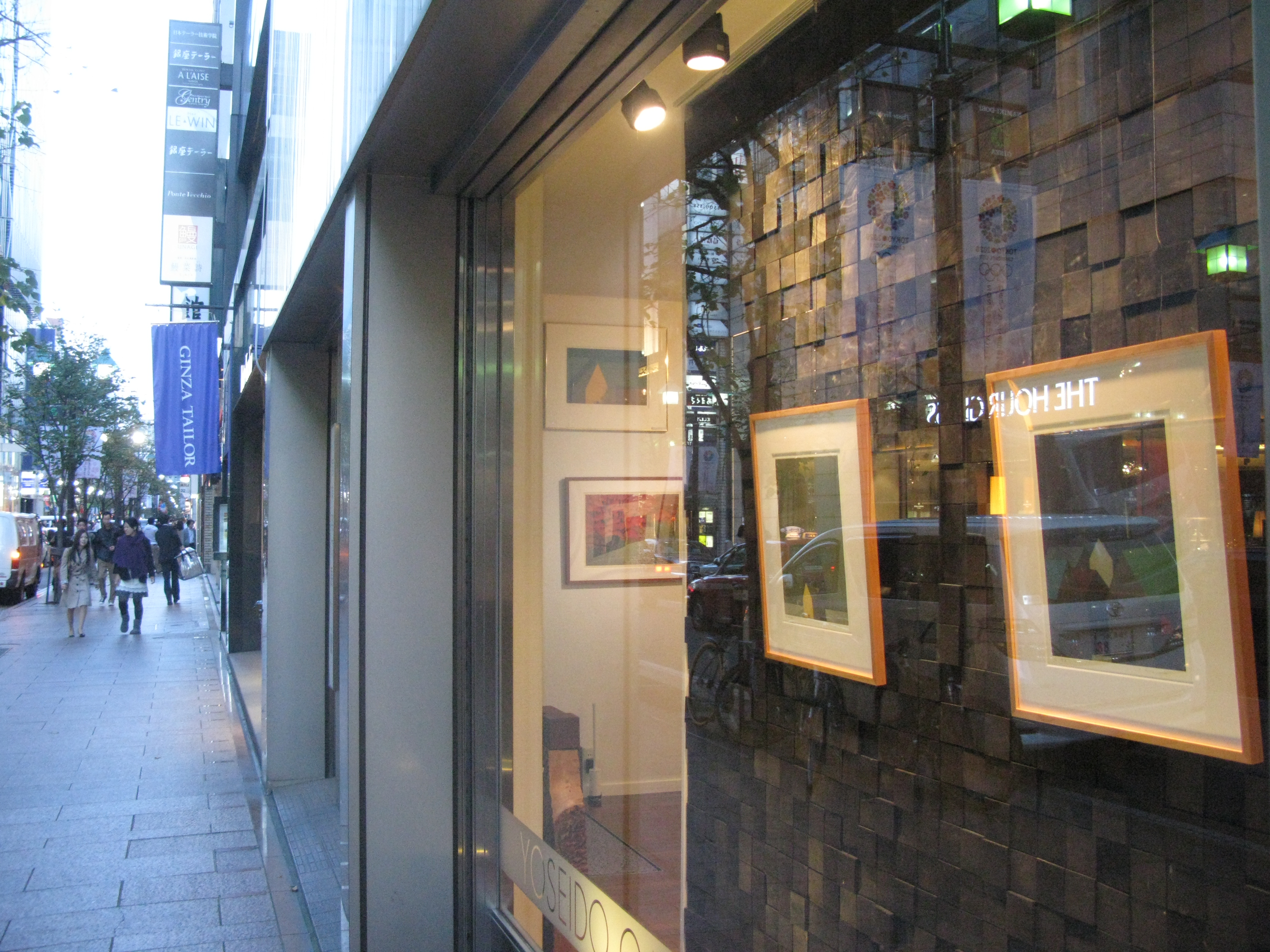 Art gallery of Ginza 5-chōme